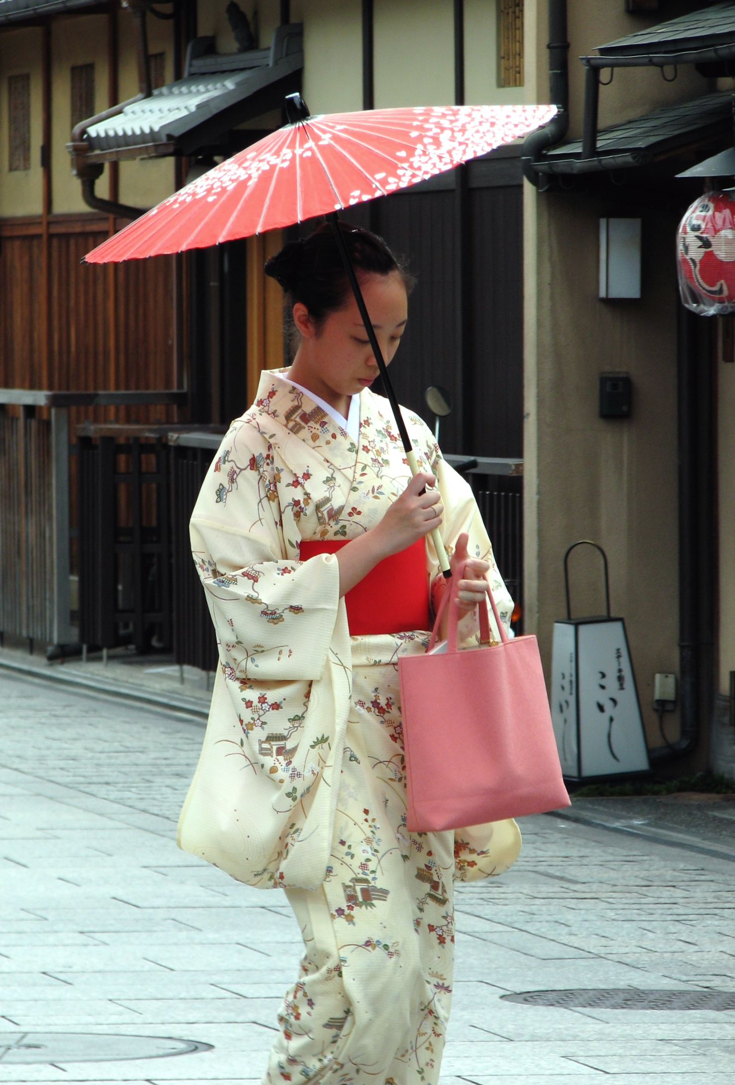 Maiko Mamesome from Gion Koubu hanamachi dressed in kimono, Japan.